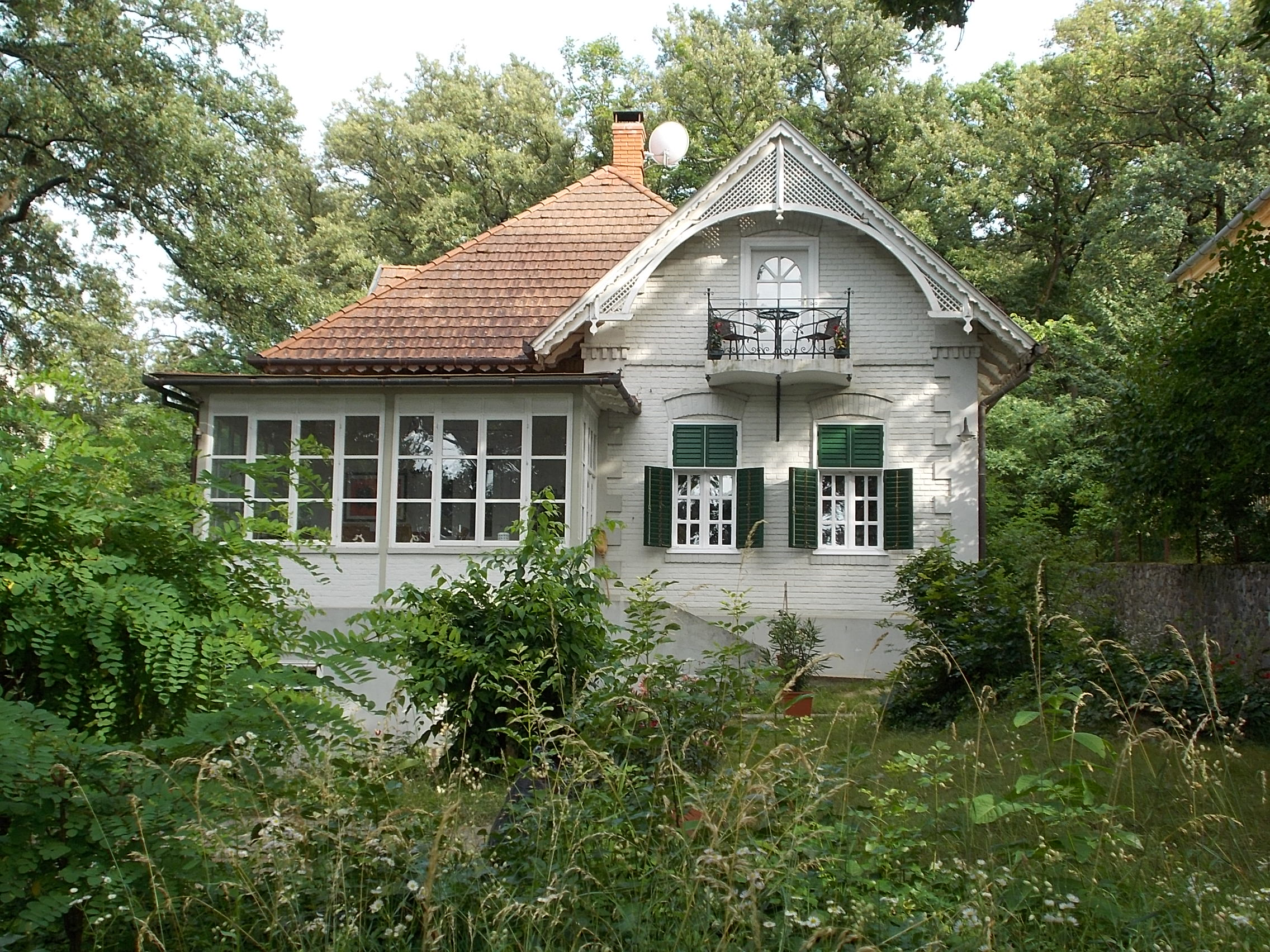 Listed villa. - 24 Bartók Béla Street, Bélatelep, Fonyód, Somogy County, Hungary.